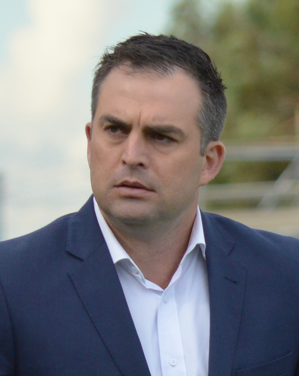 Brian Lake working as a boundary commentator for Fox Footy in February 2017